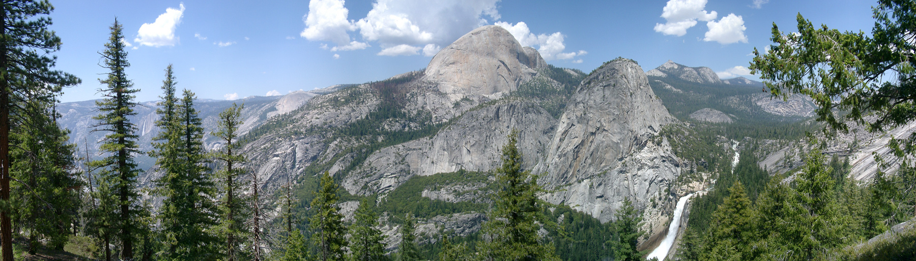 Half Dome im Yosemite National Park, California, USA